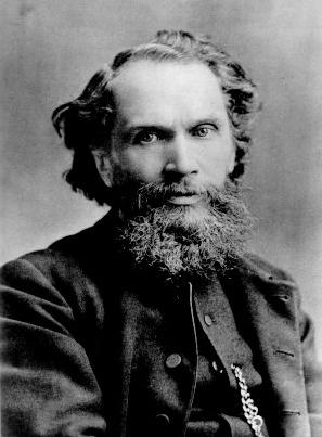 Reverend Benjamin Waugh (1839-1901), founder of the NSPCC